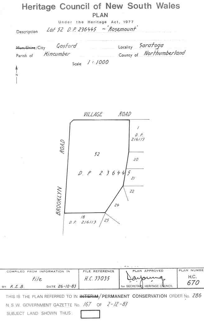 Rosemount, Saratoga: PCO Plan Number 286